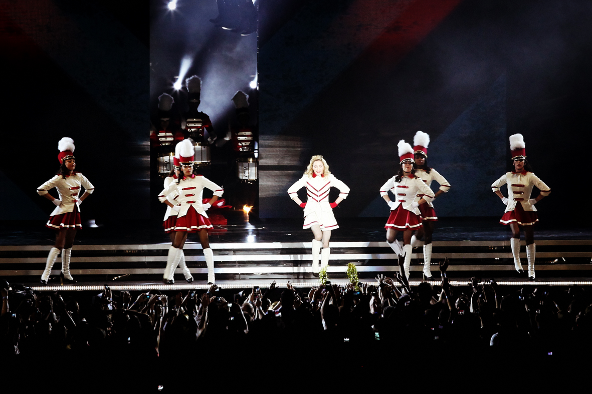 Madonna – world premier show in Israel